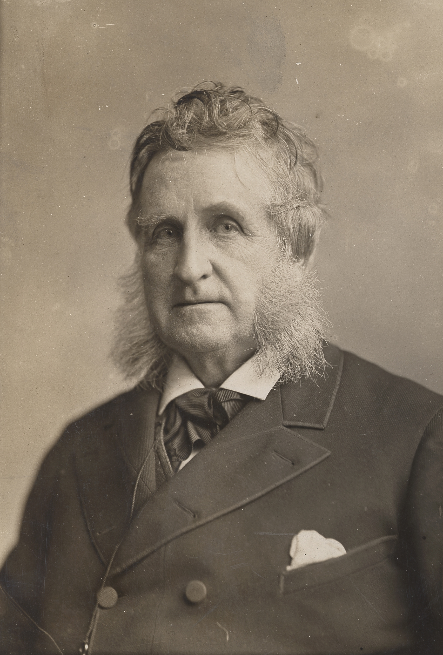 Portrait of Mitchell. Identification on front (handwritten): Donald G. Mitchell in 1883.